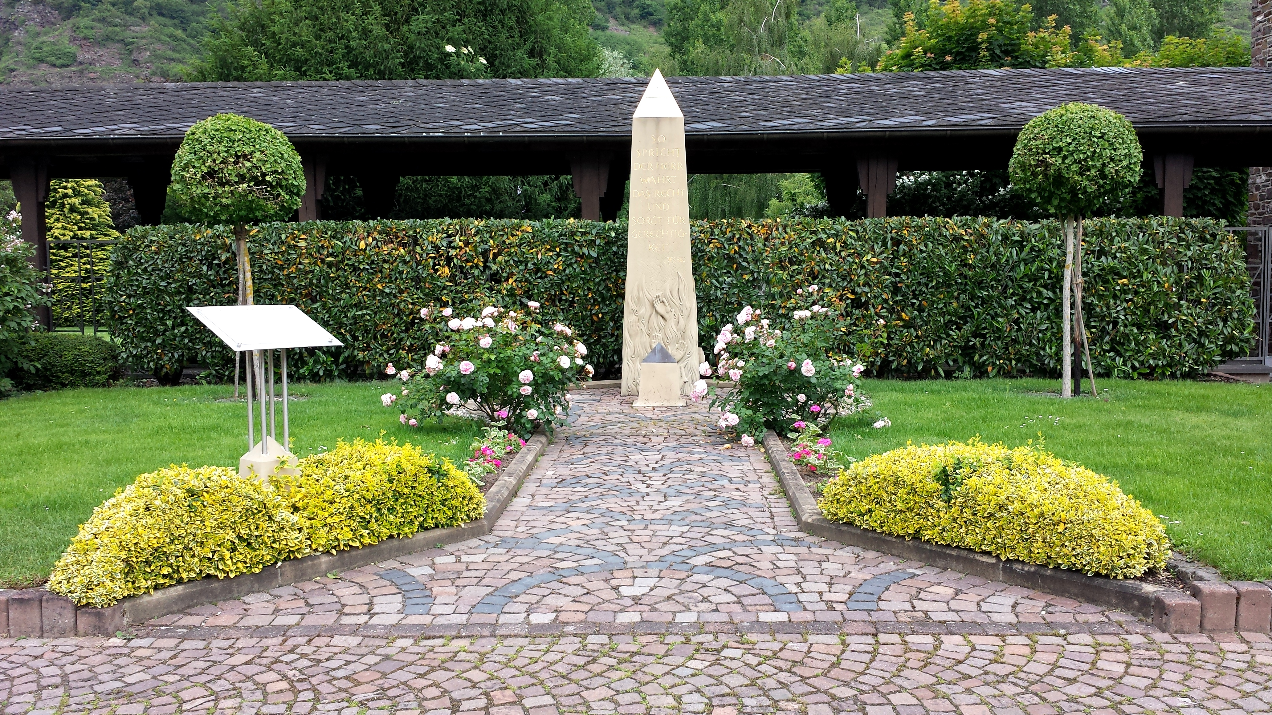 Memorial Place in Ebernach